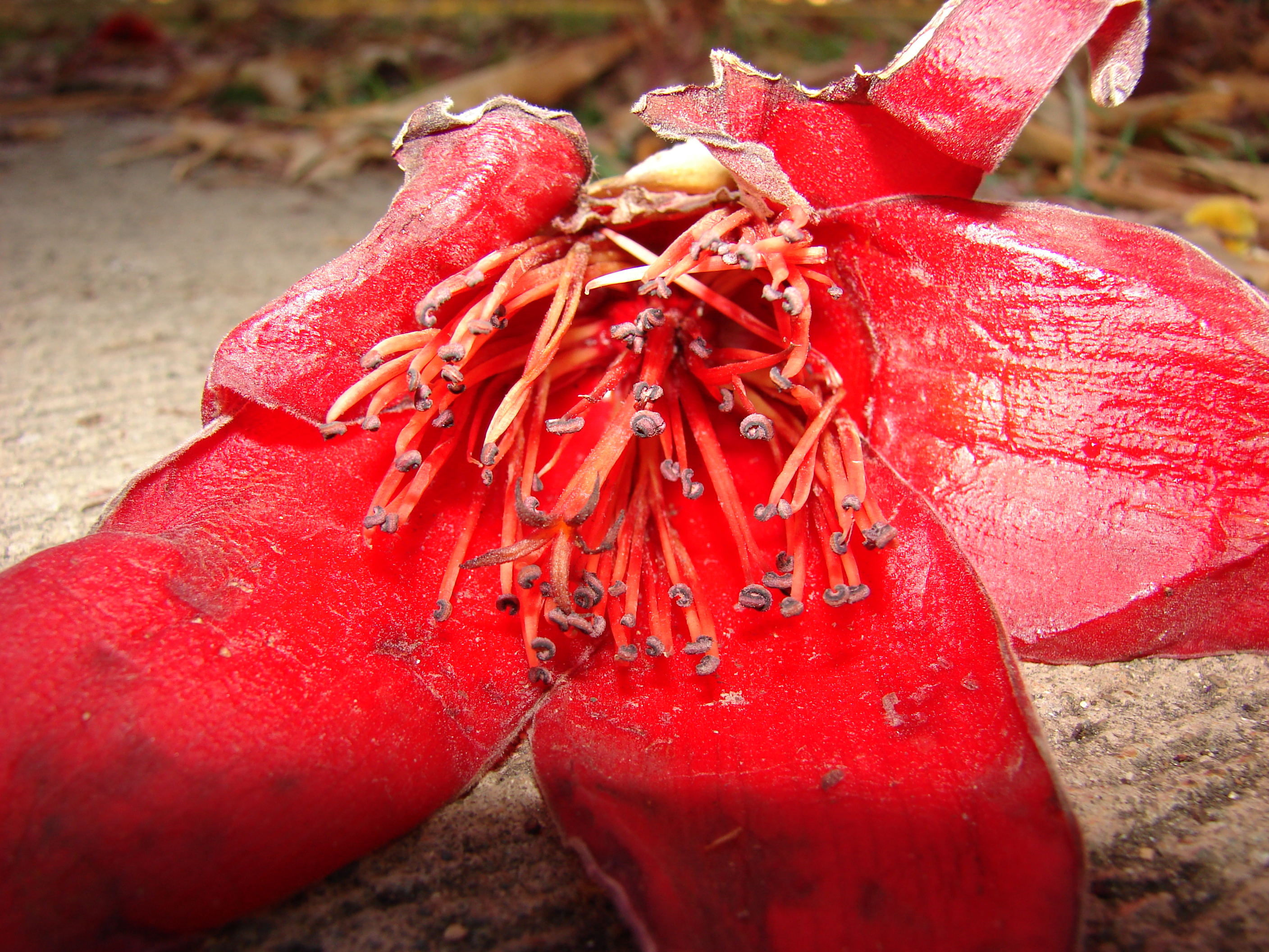 Bombax ceiba (flowers). Location: Oahu, Ala Moana Beach Park